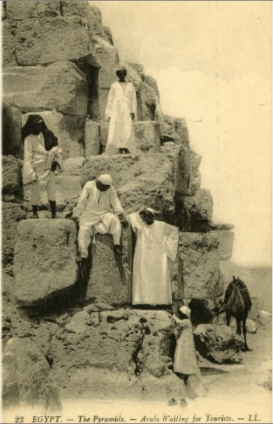 Postcard showing guides waiting for tourists at the Pyramids.